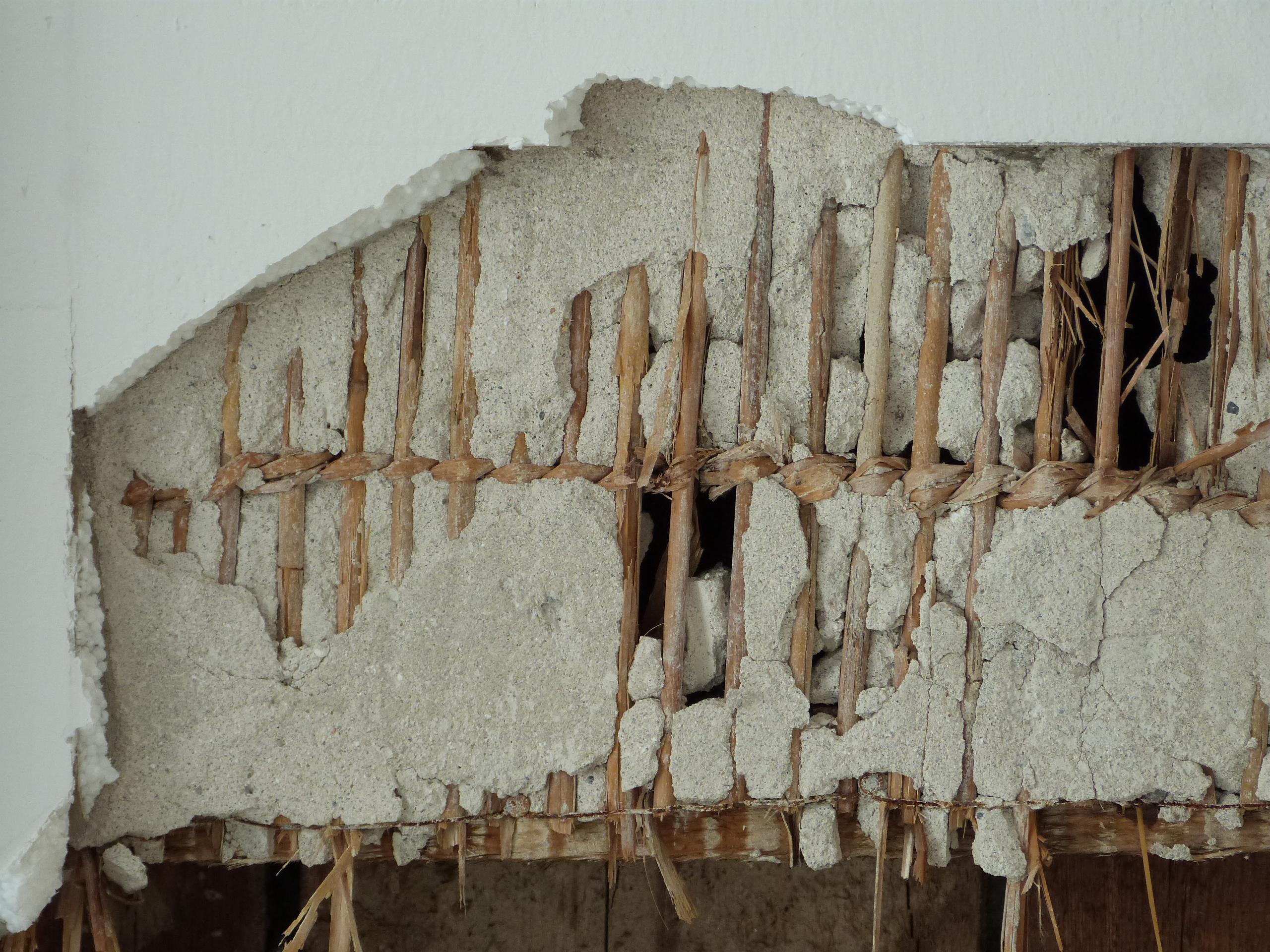 'l farès se ghe fodès la mé lèngua!